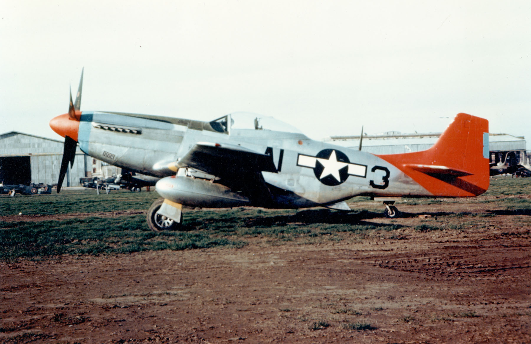 The 332nd’s aircraft had distinctive markings that gave them the name “Red Tails.” (U.S. Air Force photo)